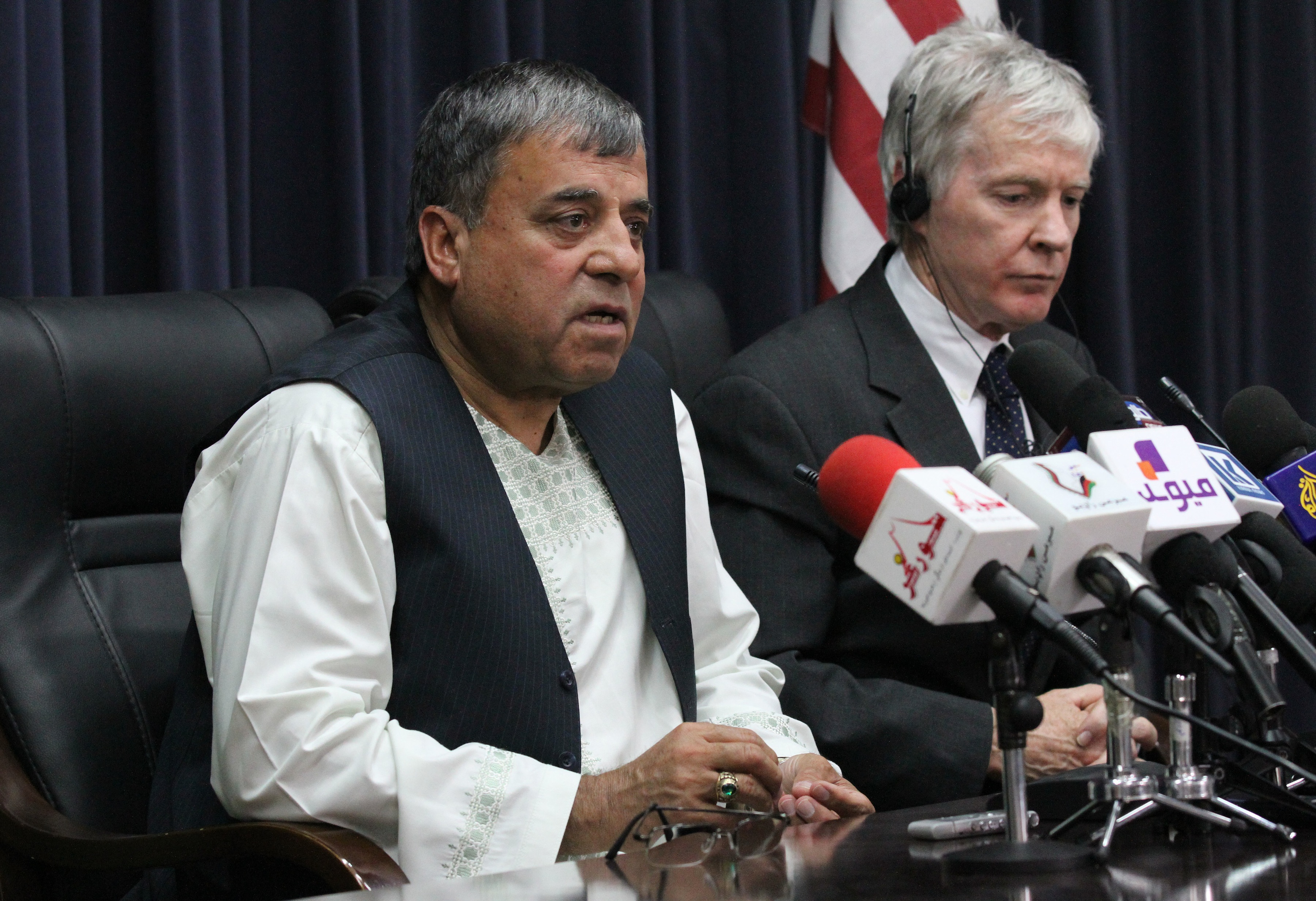 Kandahar Governor Tooryalai Wesa and Ambassador Ryan Crocker hold a press conference at the governor's palace on 23 April 2012. The Ambassador mentioned that the drawdown of military forces does not mean that the world community and America will forget Afghanistan.